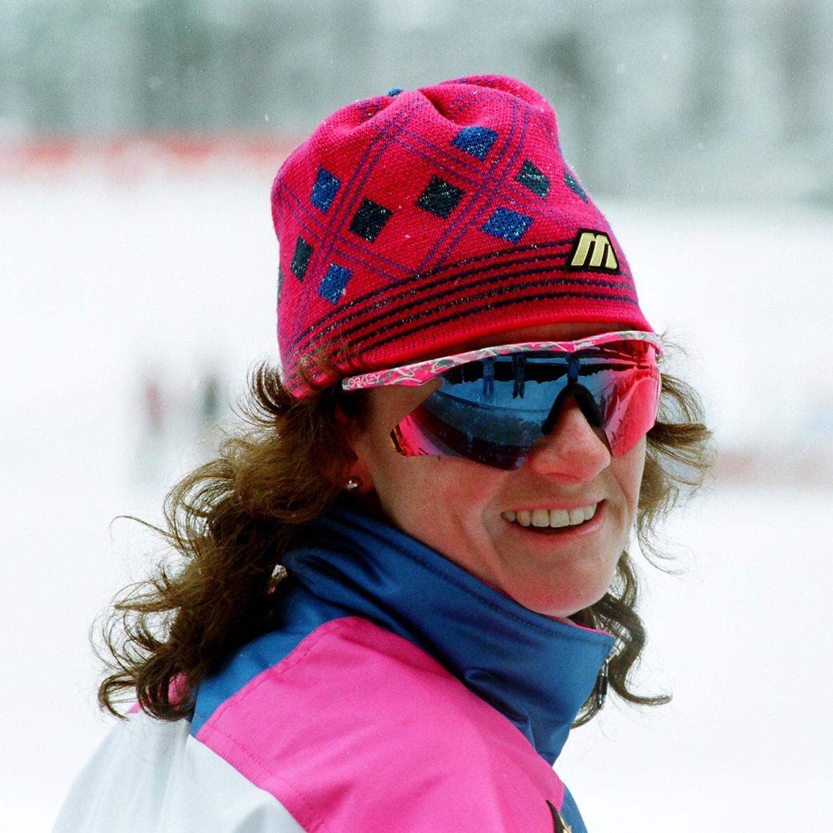 Olympic Speedskating champion Bonnie Blair from the U.S